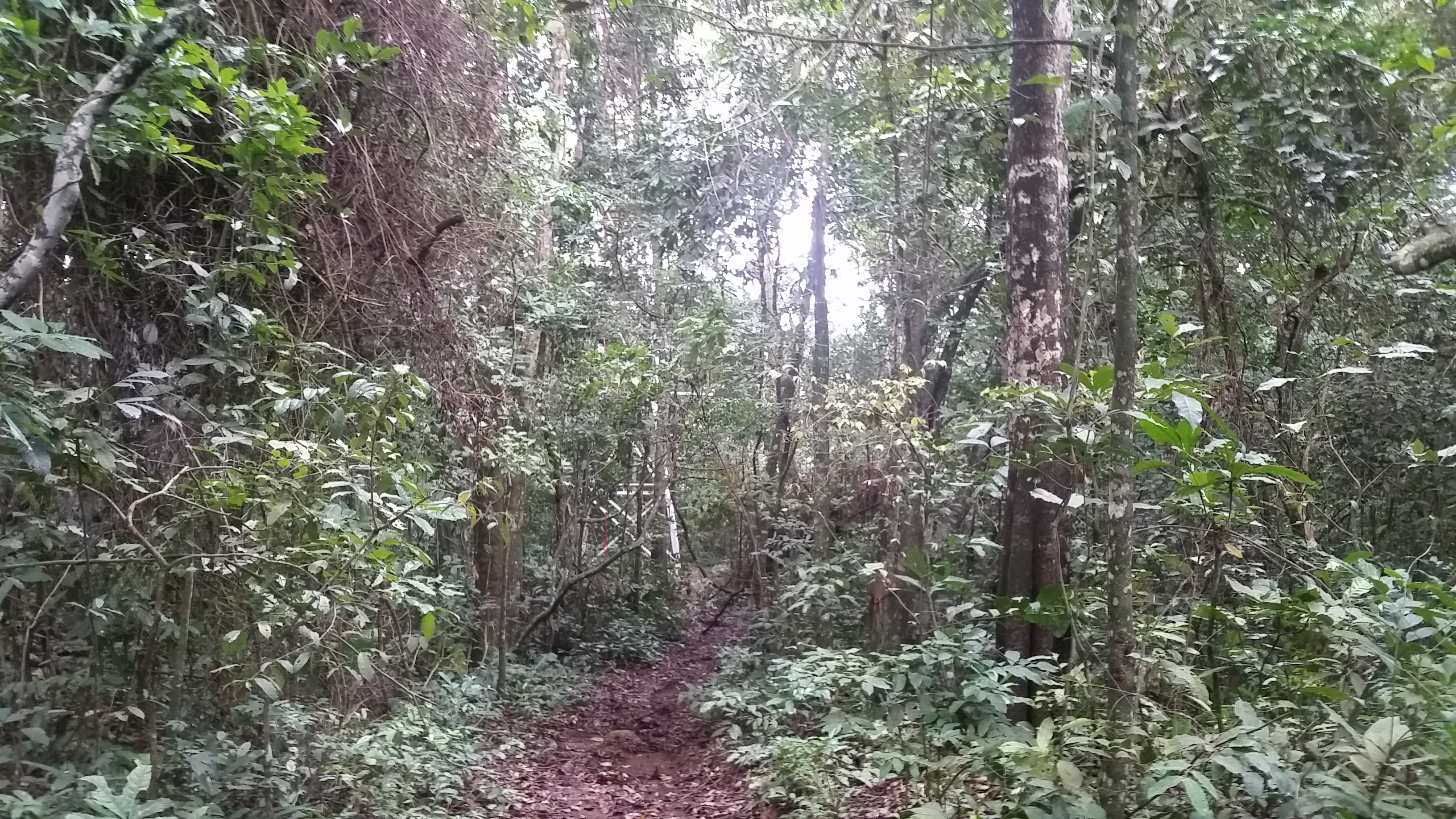 Photograph taken during a visit to the Uganda Virus Research Institute and the adjacent Zika Forest on 2 March 2018.